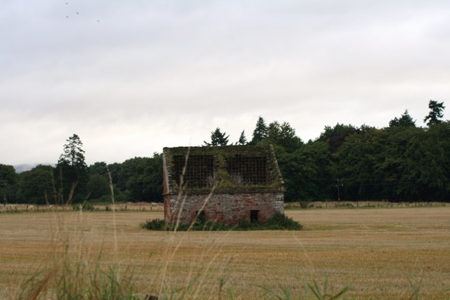 The Doocot Lying in a field this dovecot gives name to both a nearby farm and camping site.